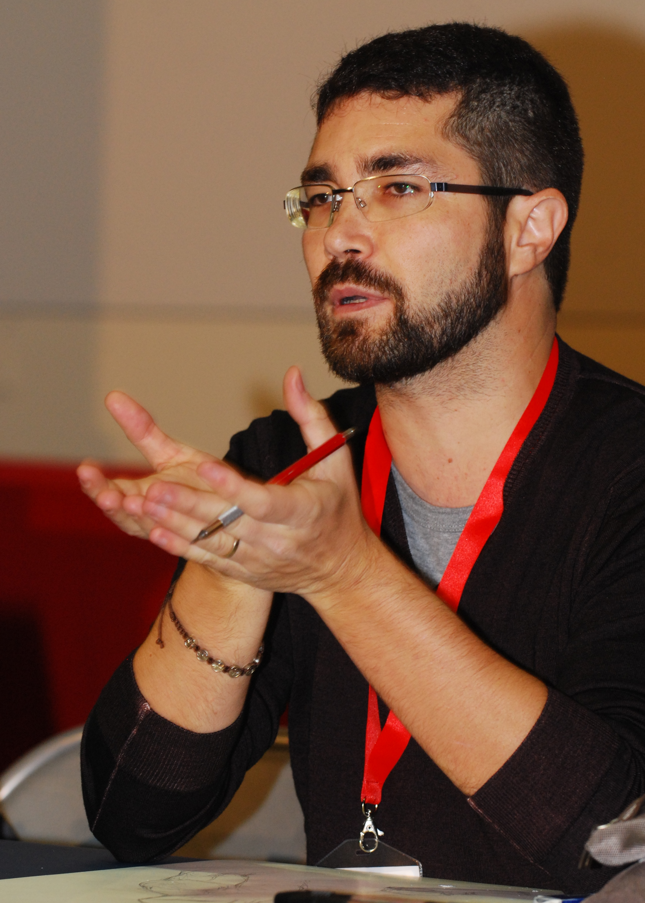 Gabriele Dell'Otto at Lucca Comics & Games 2011